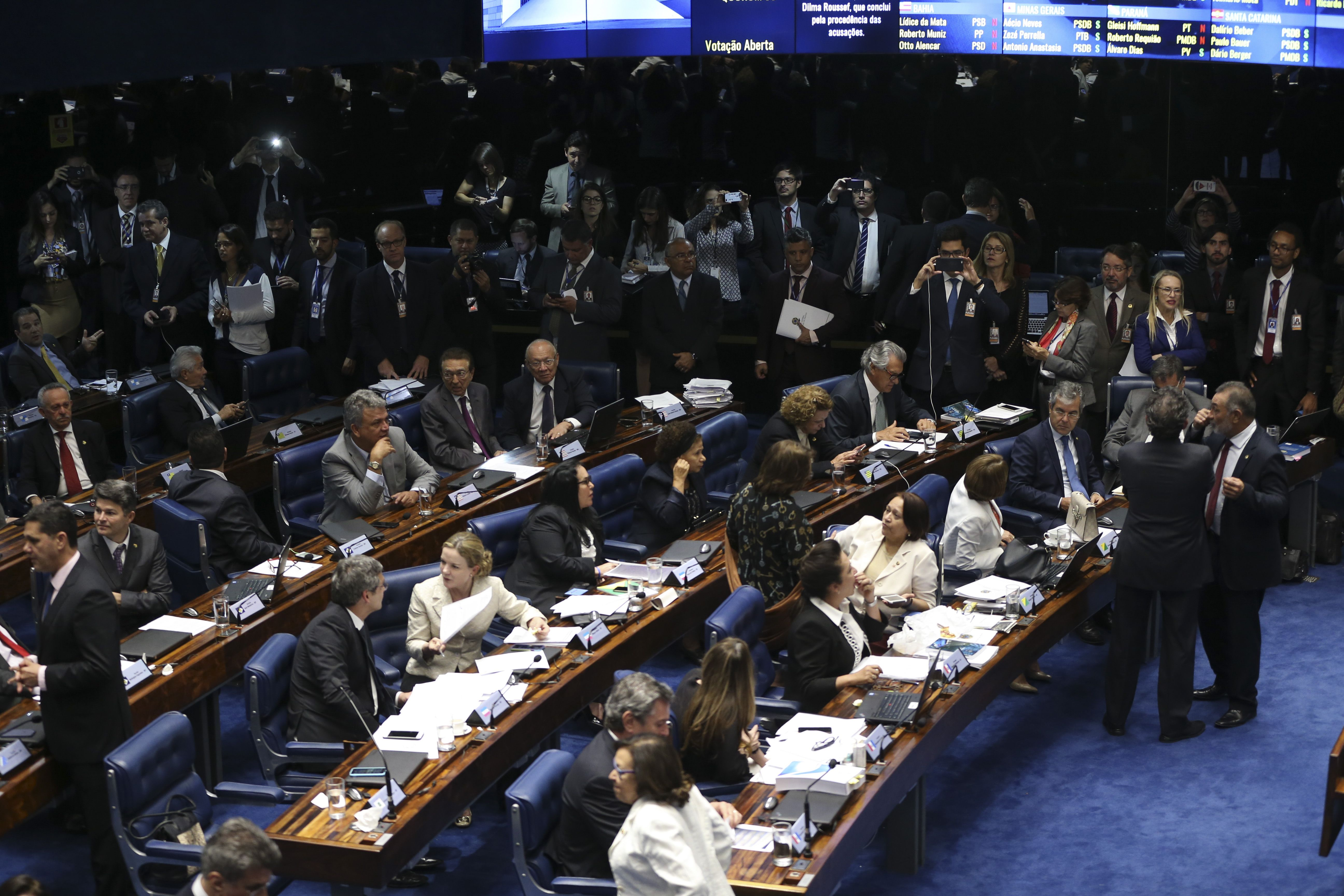 Brazil Senate approves the report of the impeachment committee.